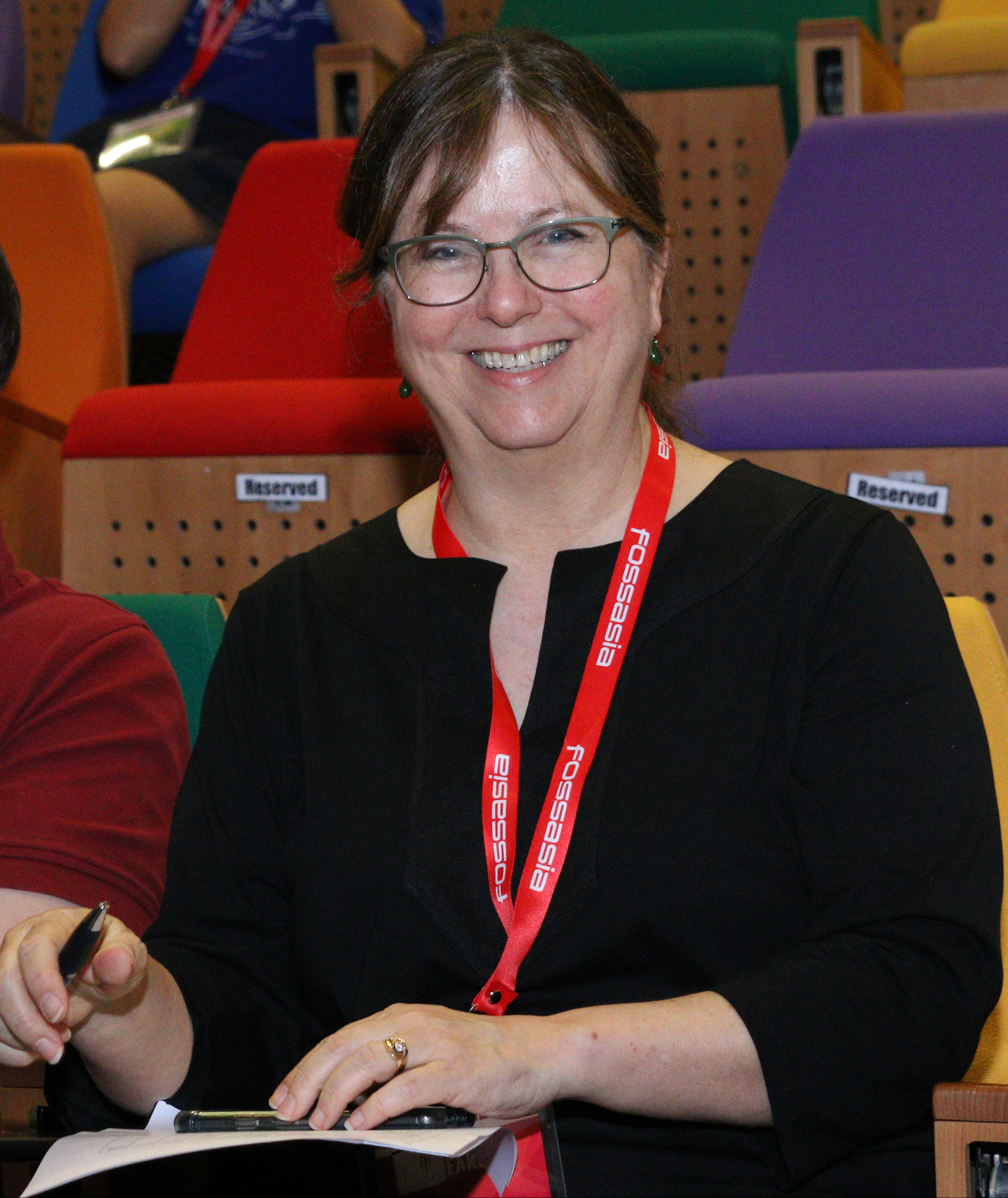 Google and Science Foo Camp program manager Cat Allman at the FOSSASIA UNESCO Hackathon in 2018